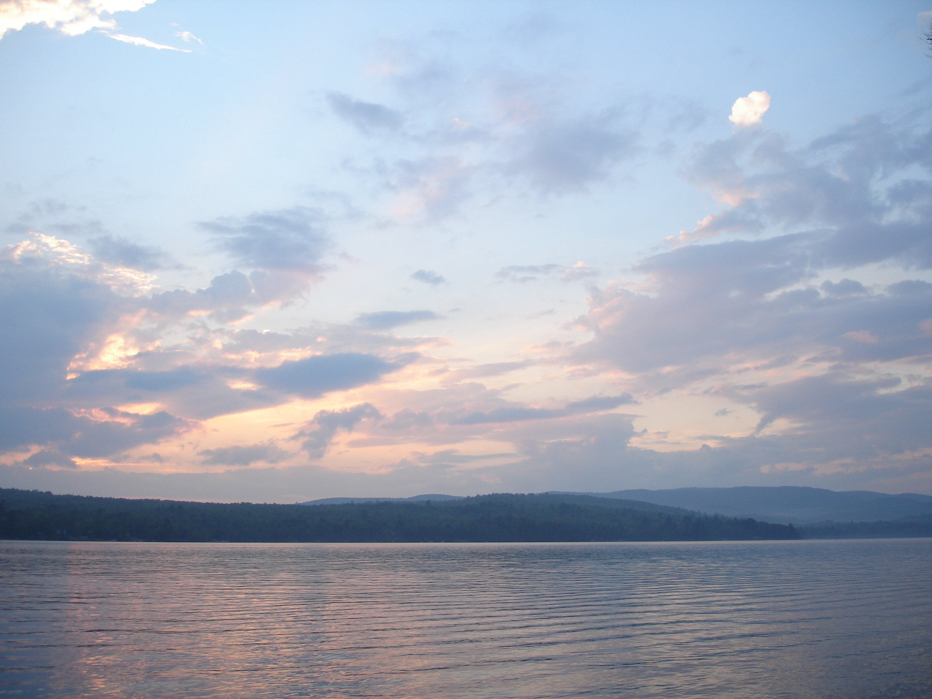 The mouth of Lake Embden in Maine